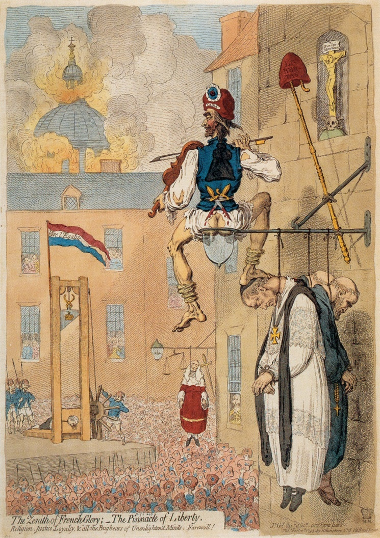 "The Zenith of French Glory: The Pinnacle of Liberty. Religion, Justice, Loyalty & all the Bugbears of Unenlightend Minds, Farewell!". A satire of the radicalism of the French Revolution. A picture by James Gillray.